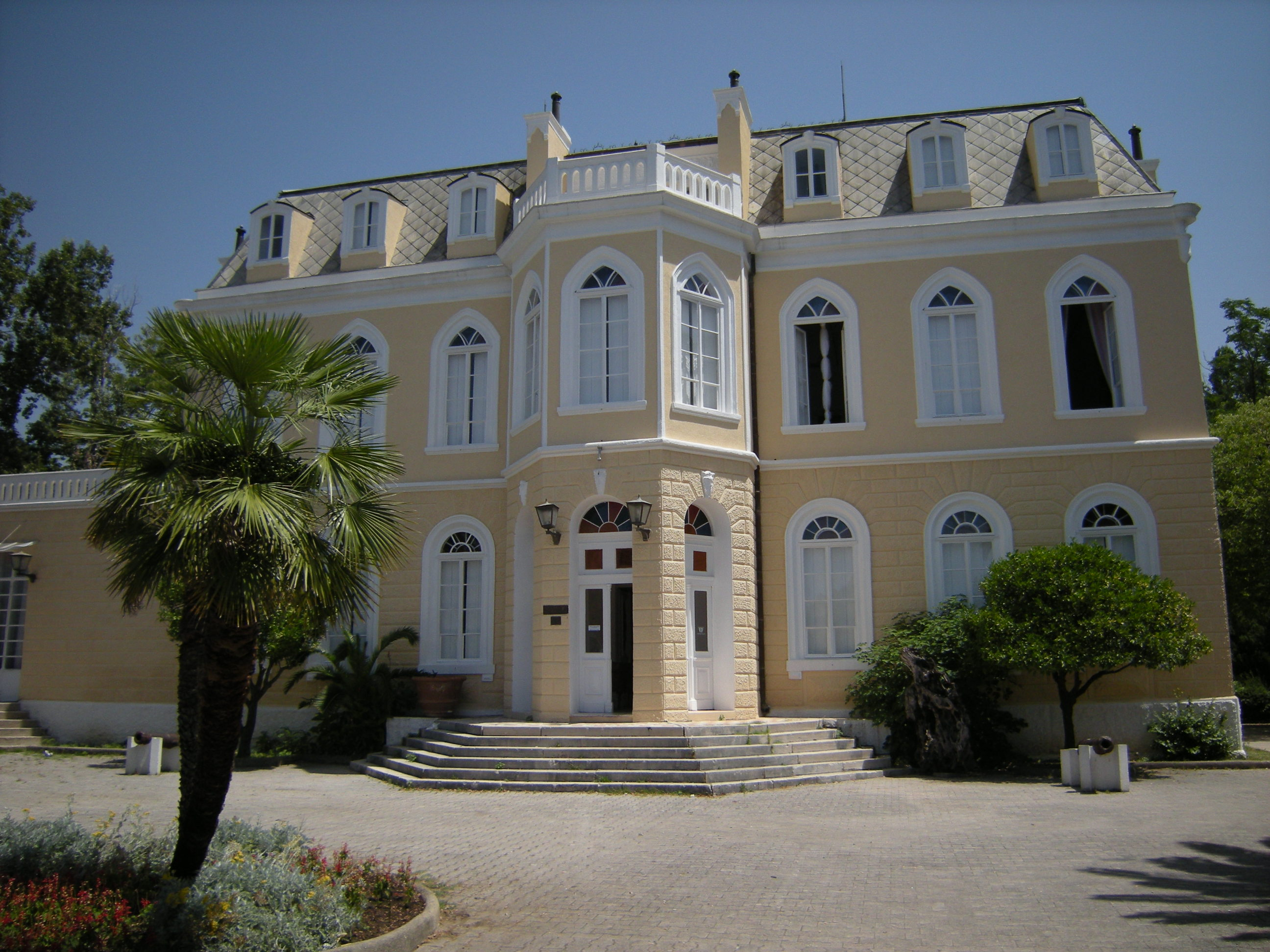 Bar, Montenegro